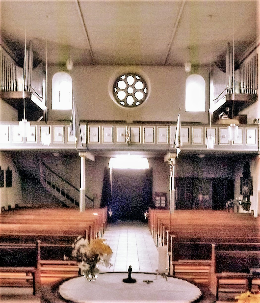 Interior of the roman catholic church in Faha, Saarland, Germany